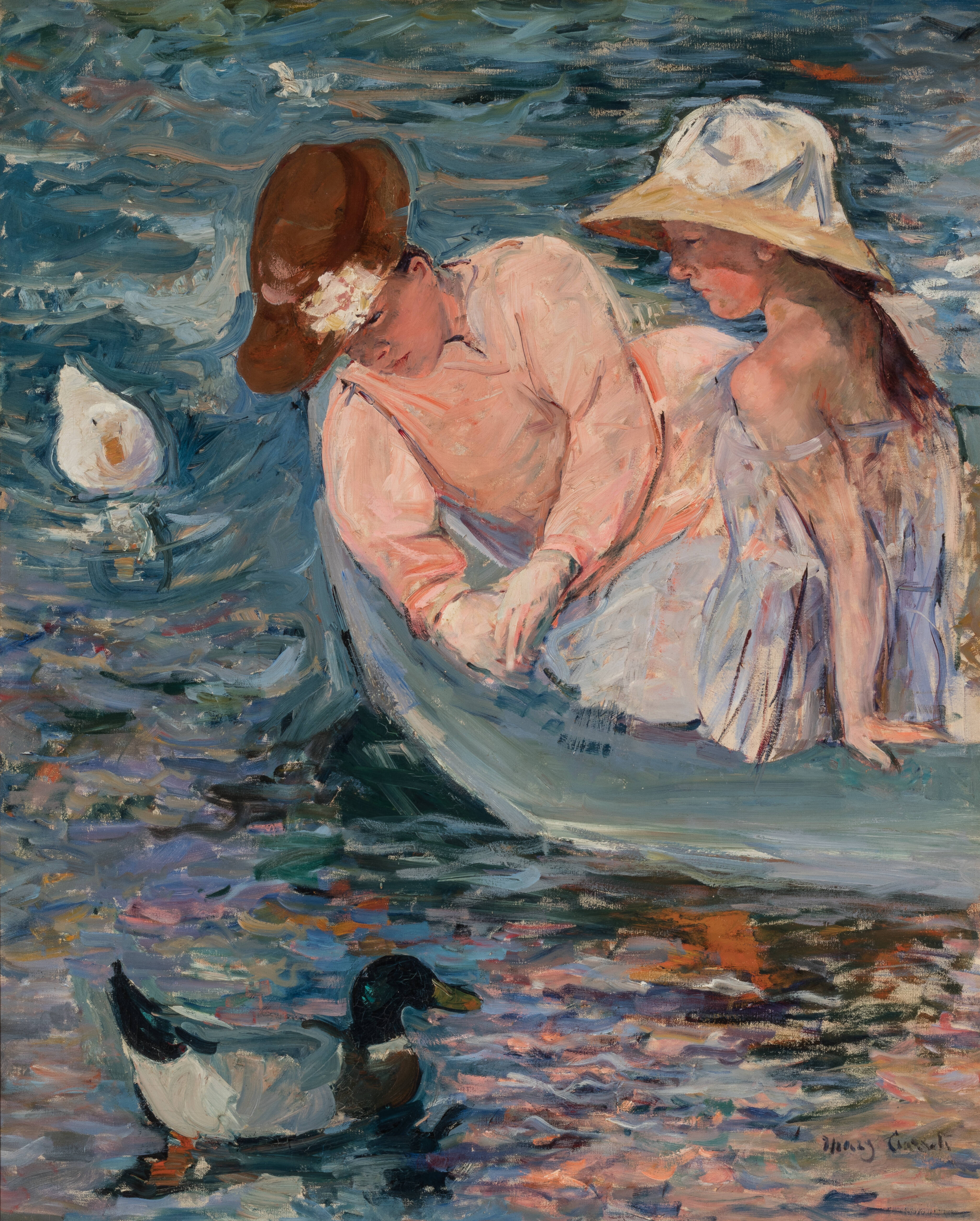 Summertime 1894 Oil on canvas Image: 39 5/8 x 32 in. (100.6 x 81.3 cm) Frame: 49 1/8 x 41 1/2 in. (124.8 x 105.4 cm) Terra Foundation for American Art, Daniel J. Terra Collection, 1988.25 Signed: Lower right: Mary Cassatt